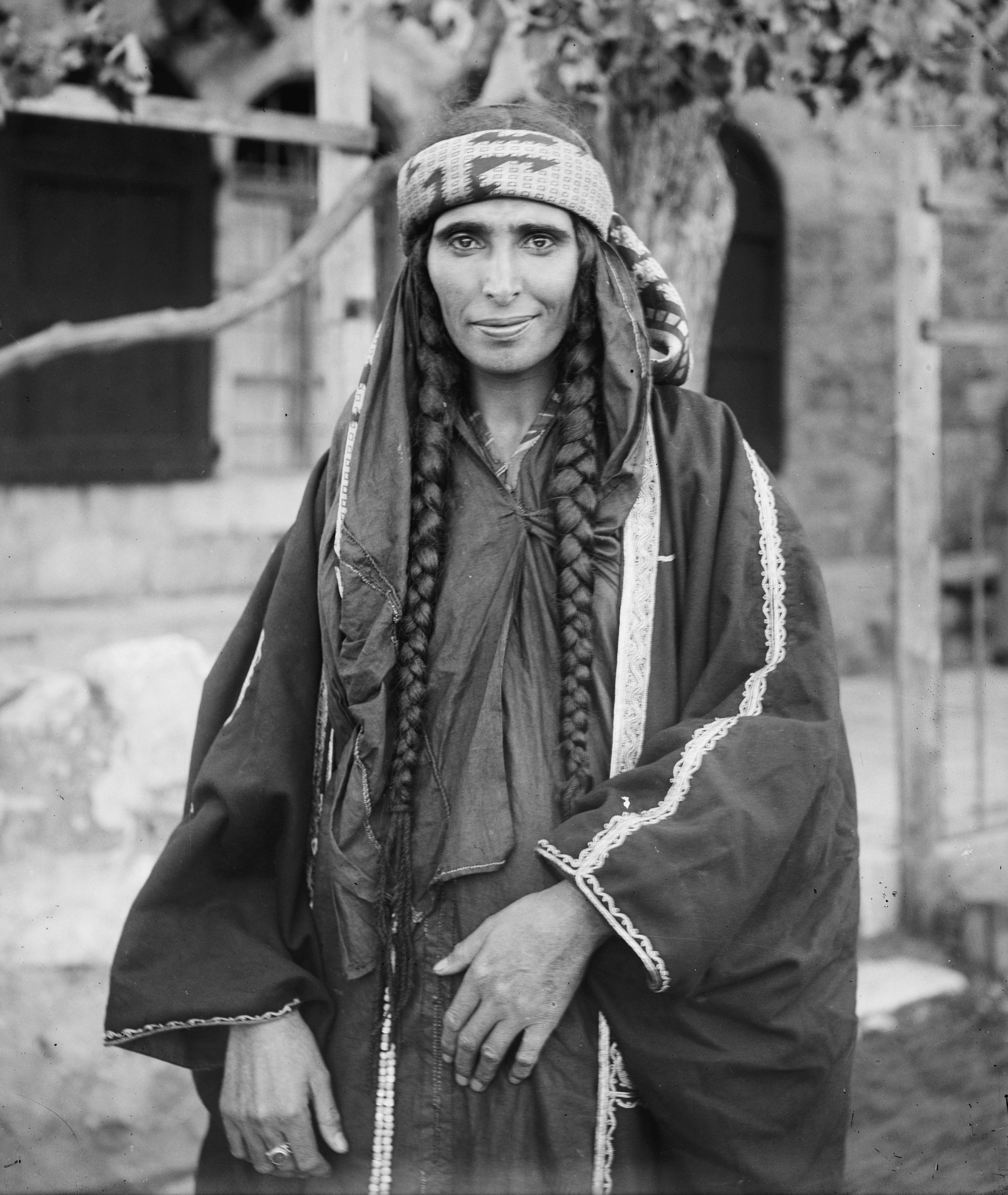 Bedouin woman in Jerusalem.